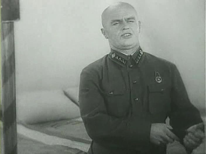 Aleksandr Melnikov as a tankman in Goriachie denechki (1935)